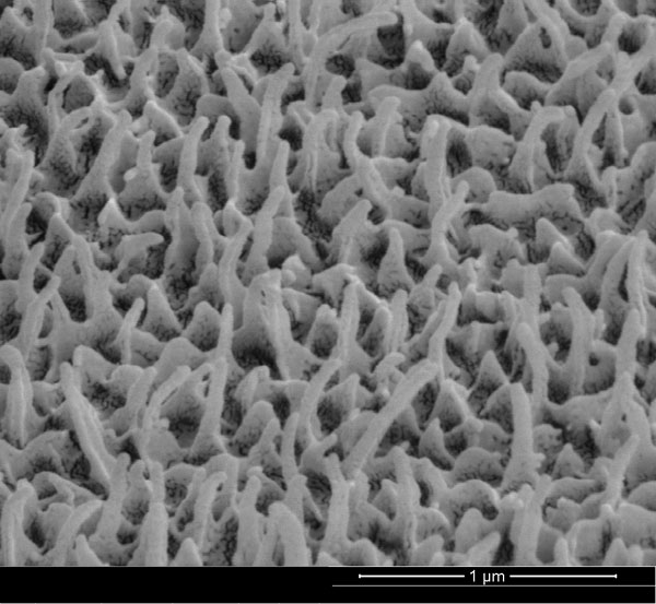 Scanning electron micrograph (SEM) shows the random nanopillars on a glasswing butterfly (Greta oto) wing. Credit: Radwanul H. Siddique, KIT.